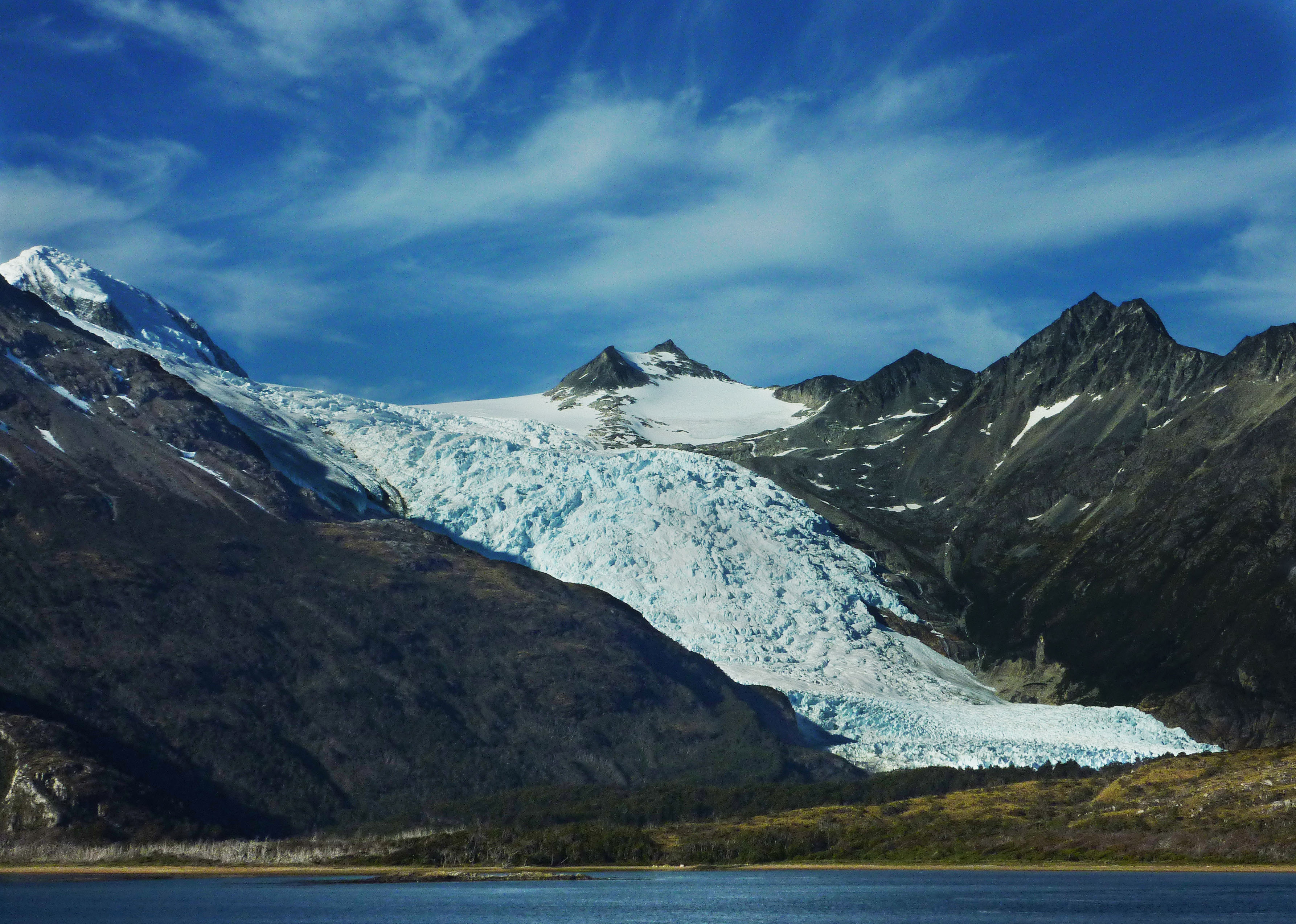 Antarctic Cruise: The Beagle Channel During his 1831 world voyage, Charles Darwin travelled through this somewhat narrow body of water on his way to the Pacific Ocean. Later named for Darwin's ship, the Beagle, it's one of the most beautiful water passageways on the planet. In modern times, it's the favourite route of cruise ships travelling south to Ushuaia and Antarctica because unlike the often turbulent South Pacific Ocean, its waters are sheltered and calm. In addition, it's fronted by some of the most impressive glaciers in South America.